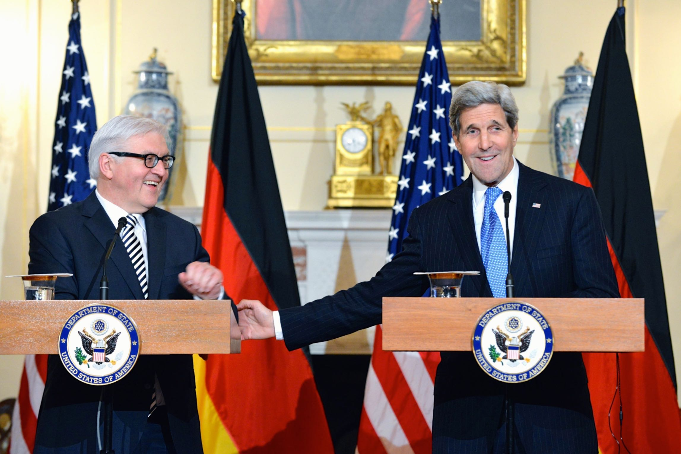 U.S. Secretary of State John Kerry delivers remarks with German Foreign Minister Frank-Walter Steinmeier during a working dinner at the U.S. Department of State in Washington, D.C. on March 11, 2015. [State Department Photo/Public Domain]